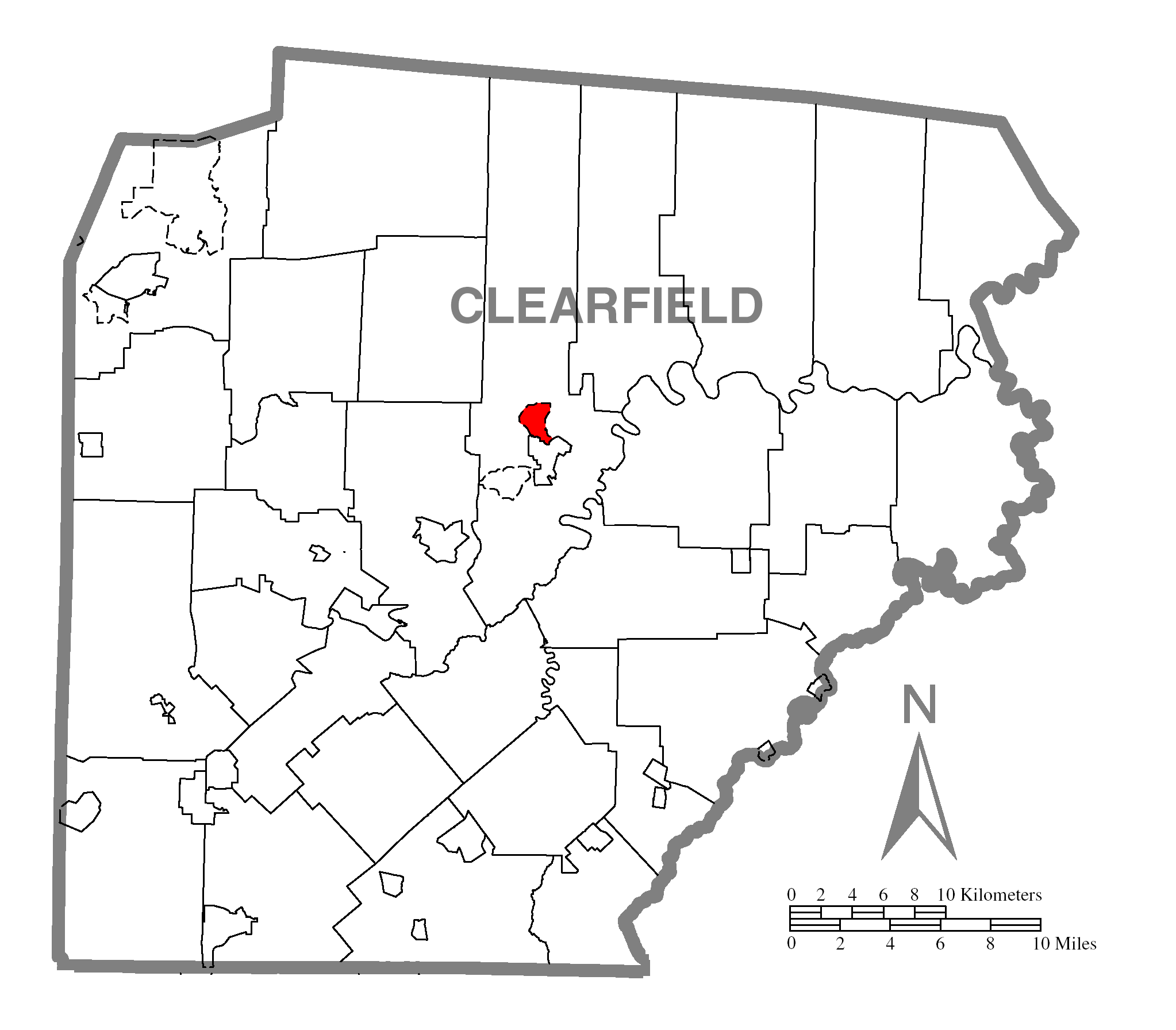 A map of Clearfield County showing Plymptonville, Pennsylvania (alternate) highlighted on the map.